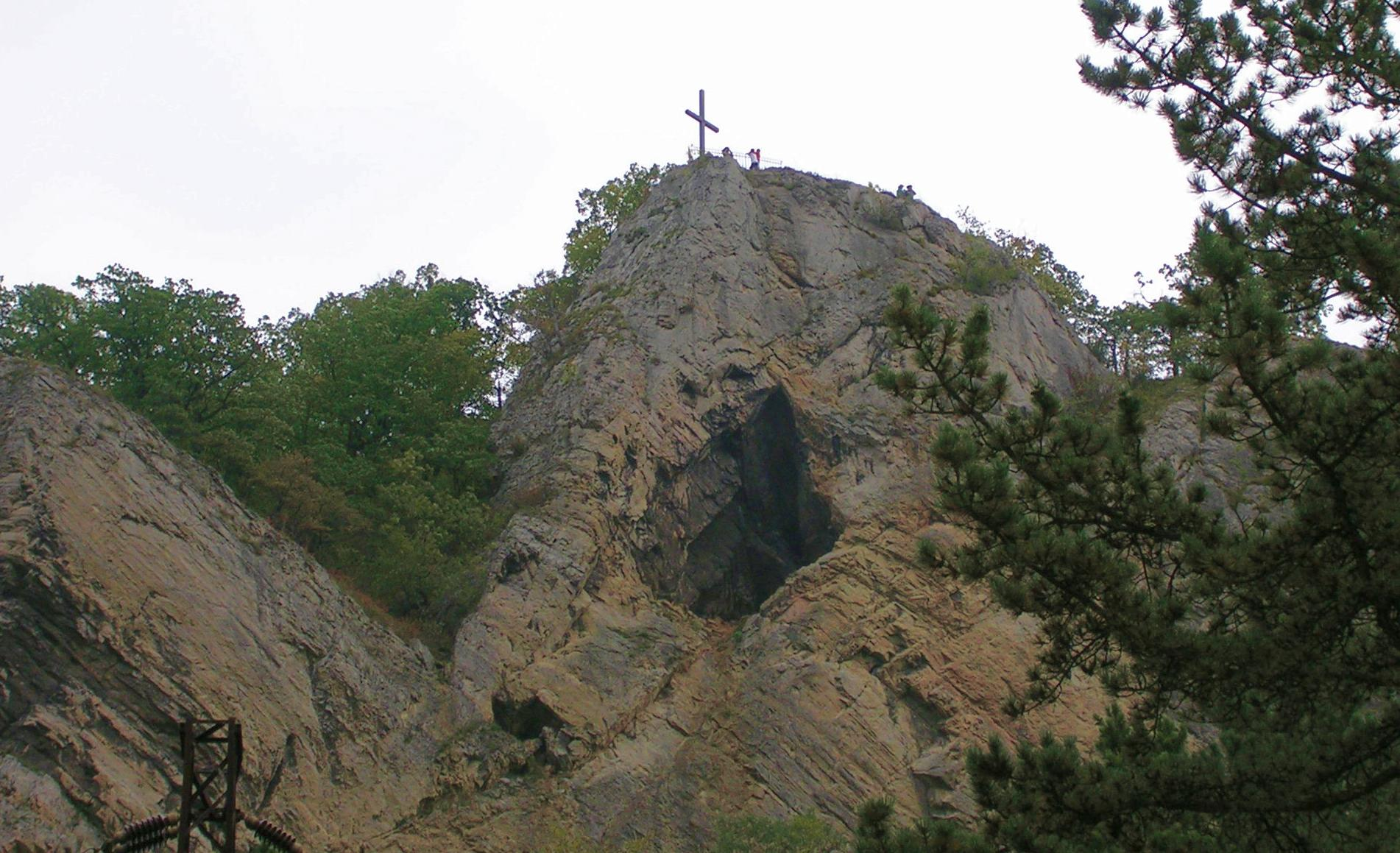 Svatý Jan pod Skalou, Beroun District, the Czech Republic.